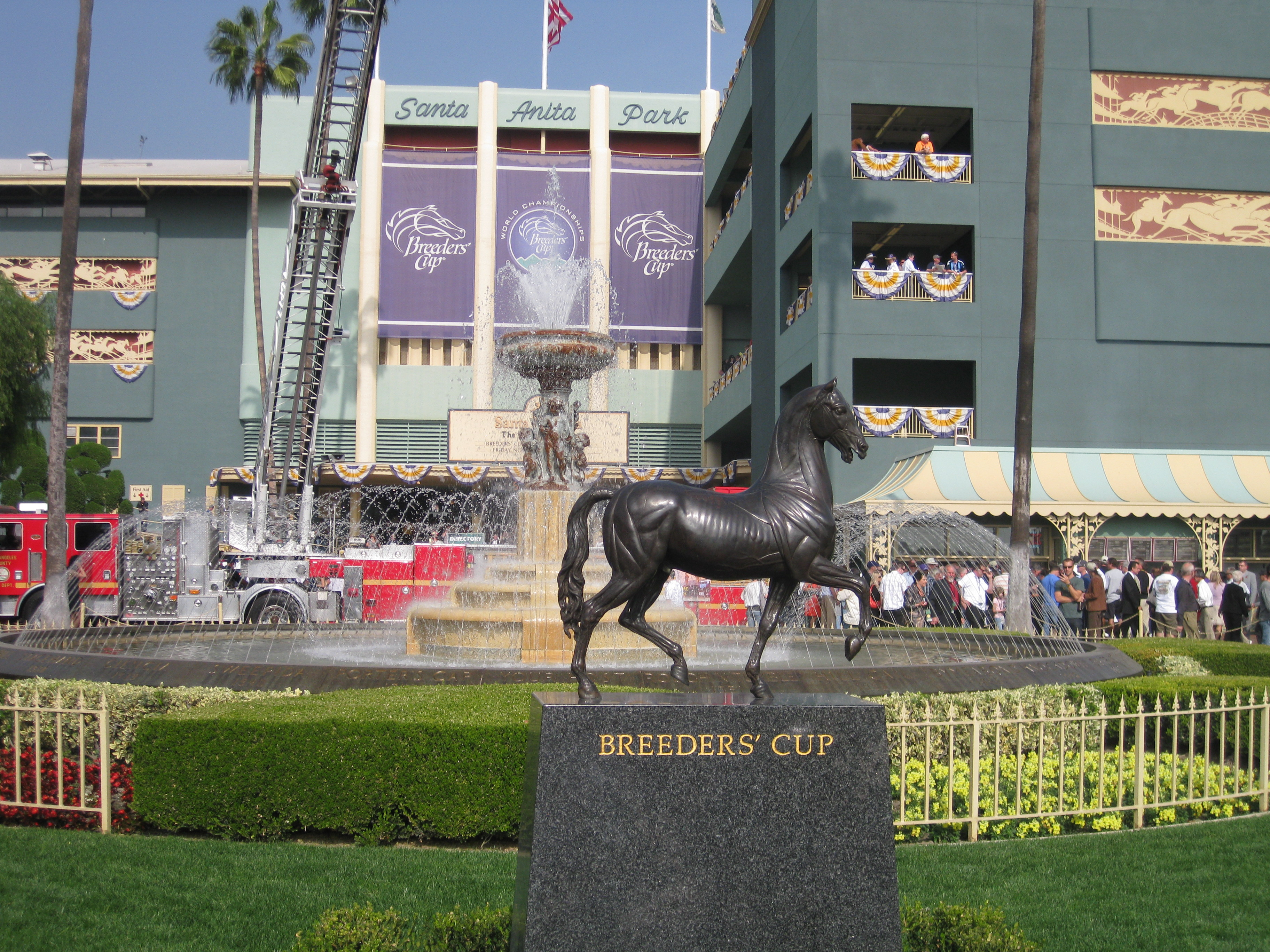 2009 Breeders' Cup championships, Santa Anita Park